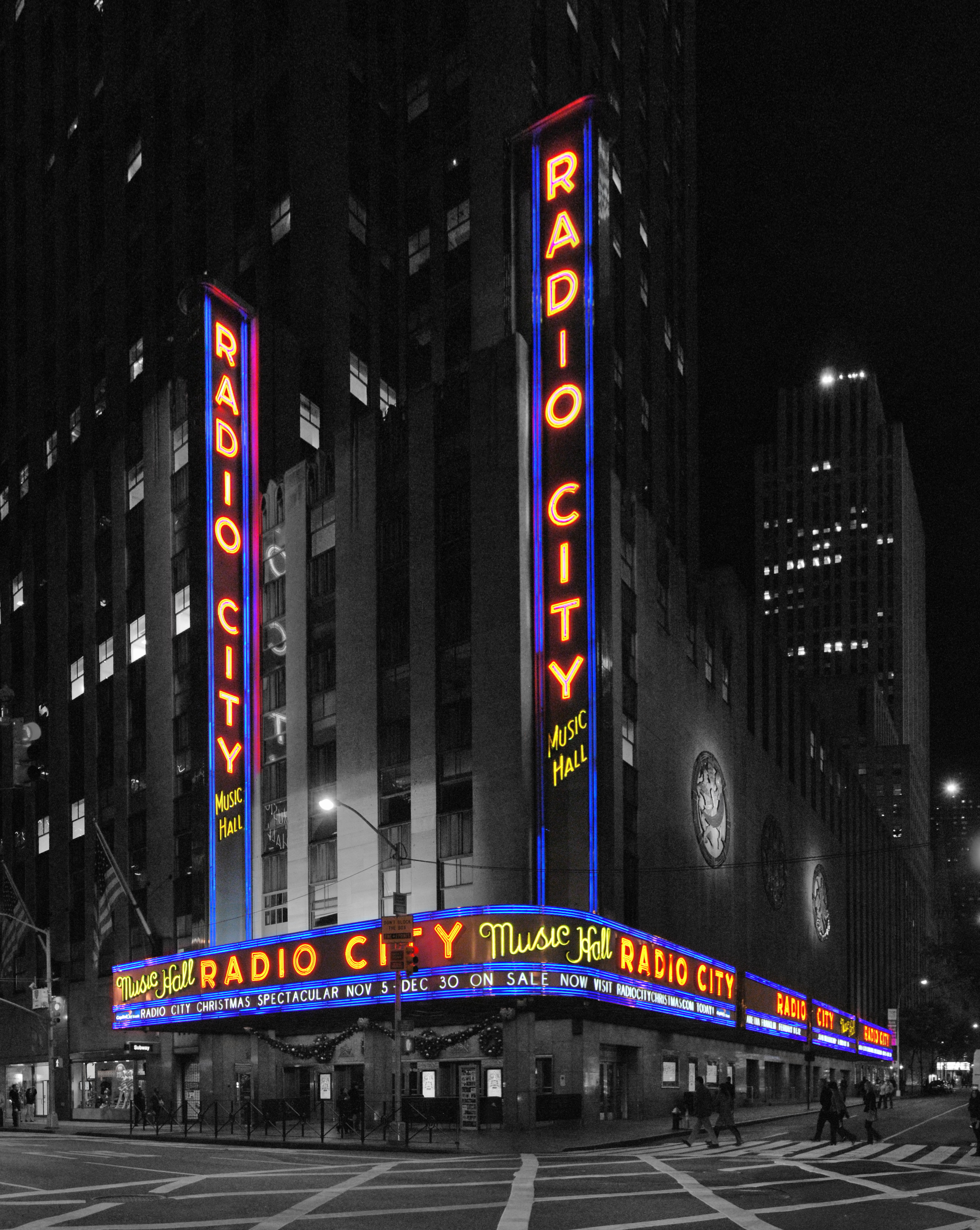 Radio City Music Hall at Rockefeller Center in New York City. Only the neon signs are in color; the rest of the image is black and white.